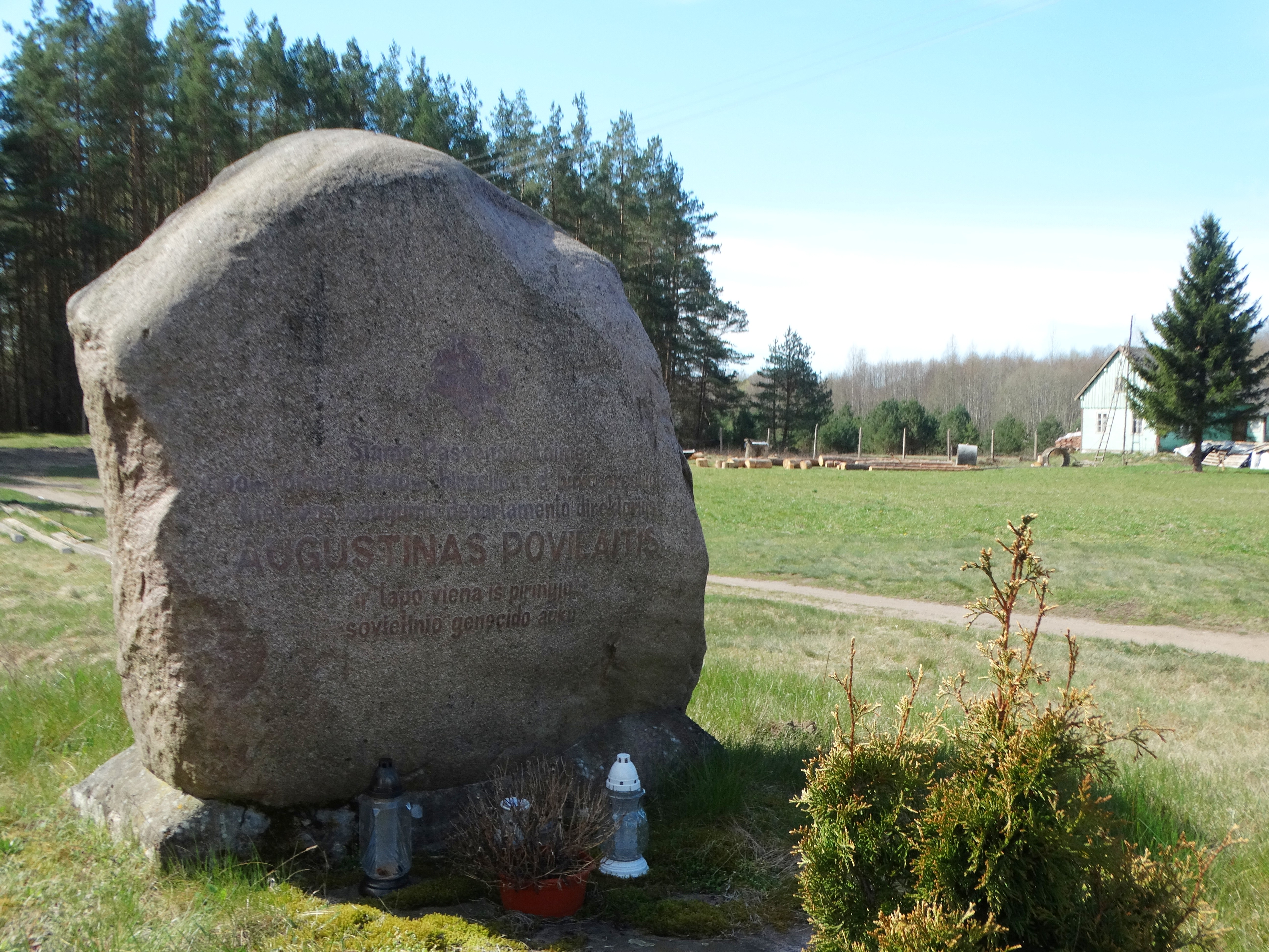 Memorial stone to Augustinas Povilaitis, Pašventys, Jurbarkas District, Lithuania